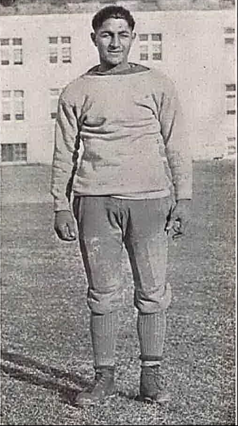 Photograph of Victor Orsatti This work is in the public domain in the United States because it was published in the United States between 1924 and 1977 without a copyright notice. See Commons:Hirtle chart for further explanation. Note that it may still be copyrighted in jurisdictions that do not apply the rule of the shorter term for US works (depending on the date of the author's death), such as Canada (50 p.m.a.), Mainland China (50 p.m.a., not Hong Kong or Macao), Germany (70 p.m.a.), Mexico (100 p.m.a.), Switzerland (70 p.m.a.), and other countries with individual treaties.